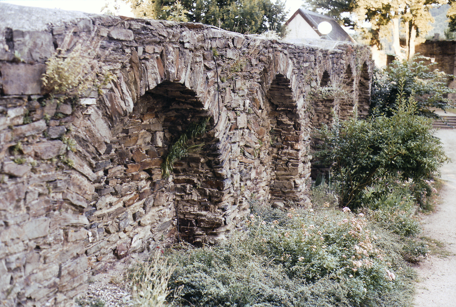 Nassau Castle, outer curtain wall